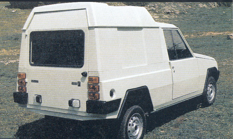 A picture of a MAVA-Renault Farma F, from my book "Made in Greece".